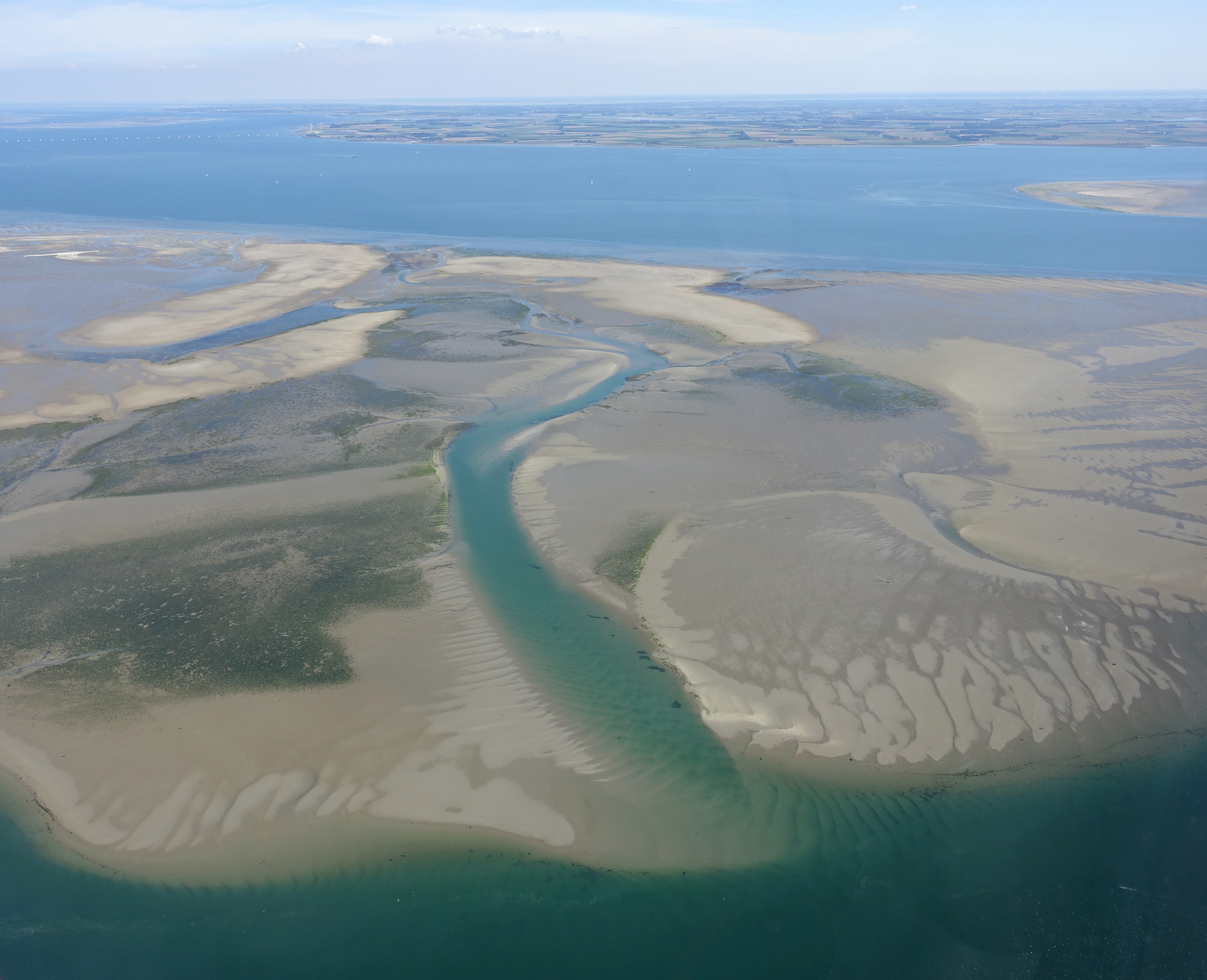 Aerial view of Roggenplaat shoal in Eastern Scheldt, Zeeland. The view is facing south-east.